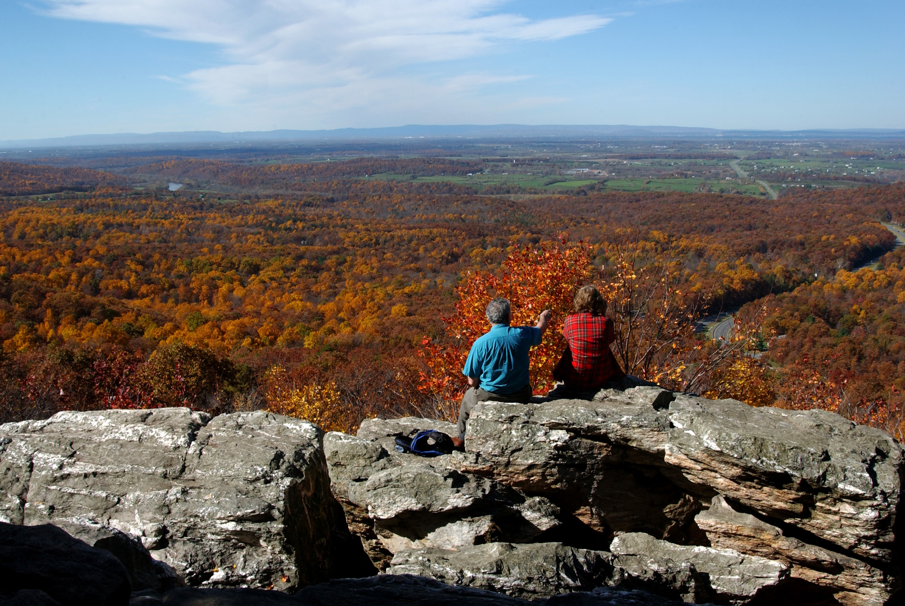 The Shenandoah Valley in the fall as seen from Bear's Den, with Route 7 on the right, and the Shenandoah River slightly appearing in the far distance (left).